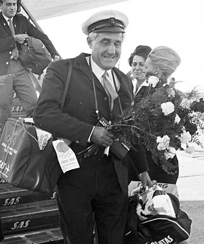 Ole Berntsen returns home from Tokyo Olympics